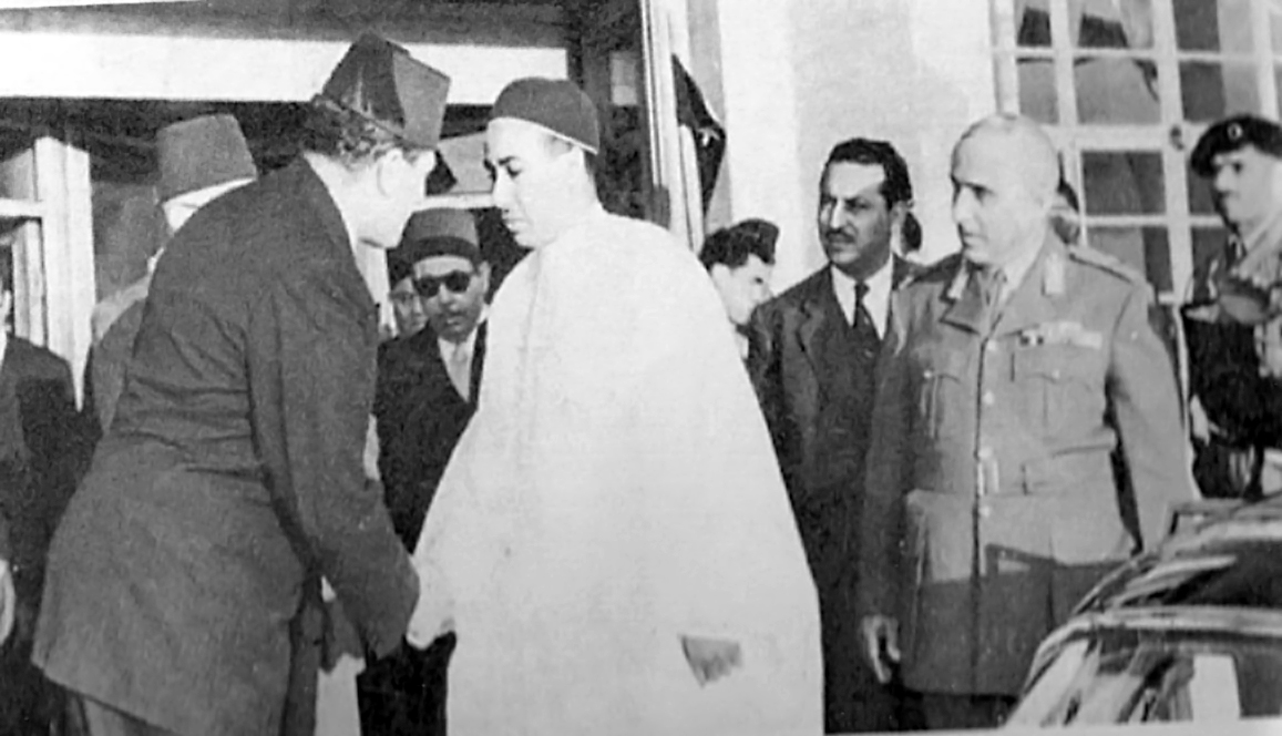 Crown Prince Hassan ar Reda of the Kingdom of Libya is shaking hands with Hussein Maziq, governor of Cyrenaica. Wanis al Qaddafi and General Buguaitin are standing behind the prince.